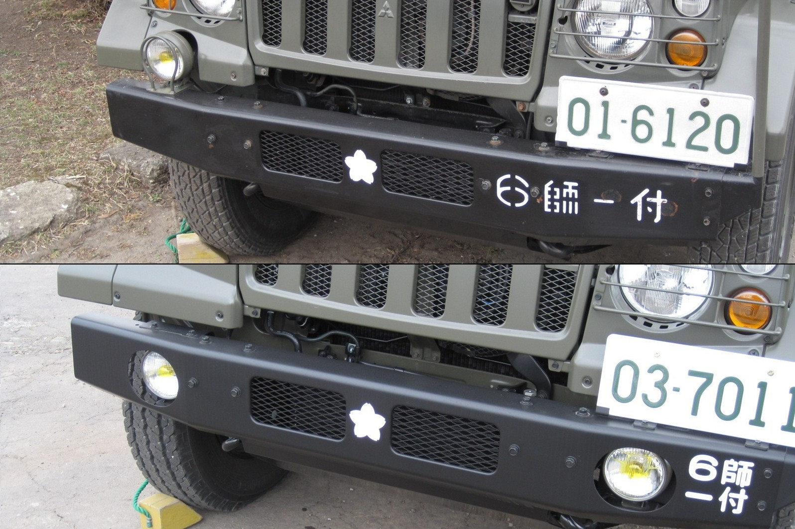 A comparison of the front side of the Mitsubishi Type 73 Kyū (Above) and Shīn (Below).